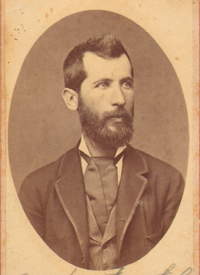 Photograph of dr Milan Đorđević (1845-1884), Serbian professor, lawyer and journalist. Srpski (latinica): Fotografija dr Milana Đorđevića (1845-1884), profesora, advokata i novinara.